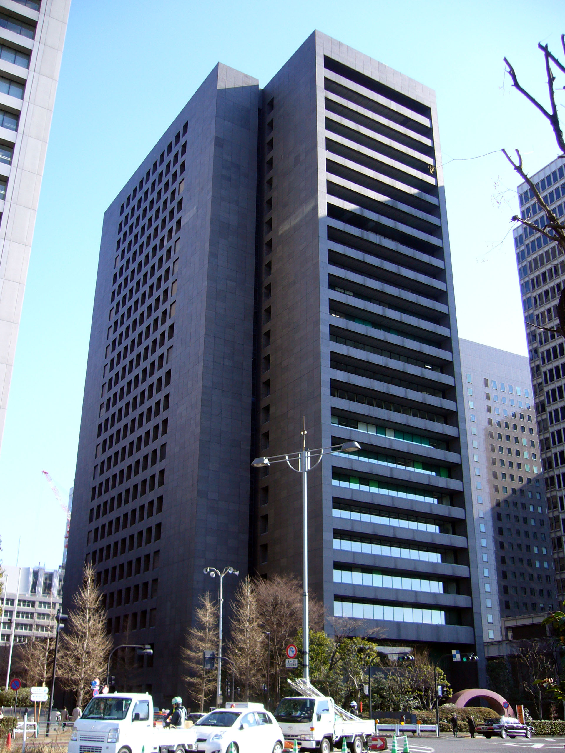 Bank of Tokyo-Mitsubishi UFJ Otemachi Building (Japanese bank)